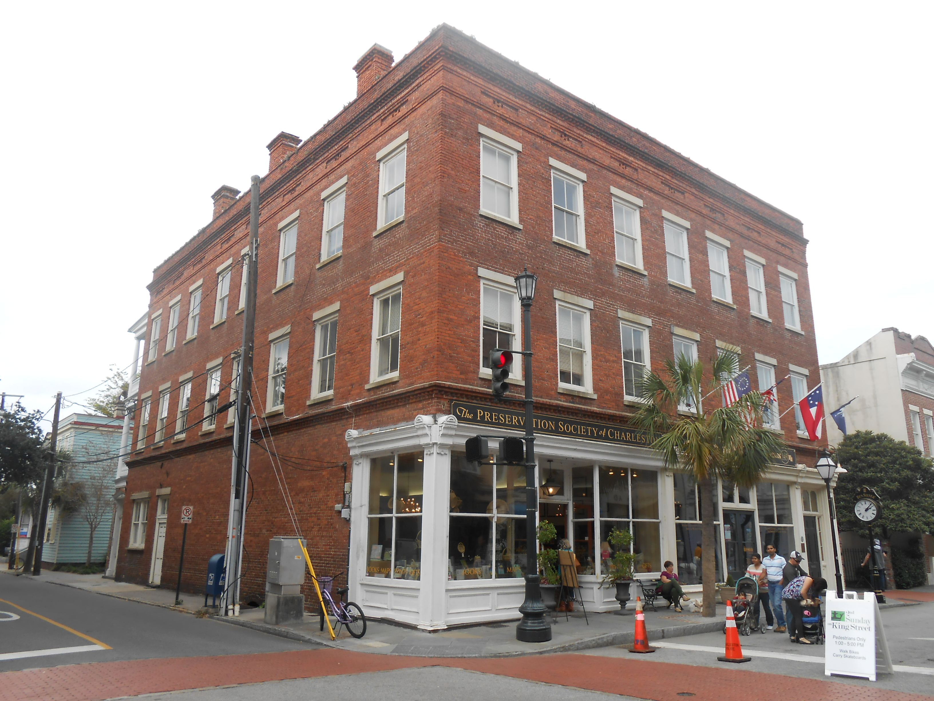 Preservation Society of Charleston, 147-149 King St., Charleston, South Carolina